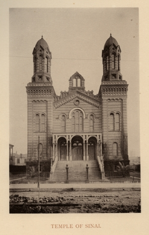 Temple Sinai, Carondelet Street facade — formerly near Lee Circle in central New Orleans. Built in 1872, now demolished.